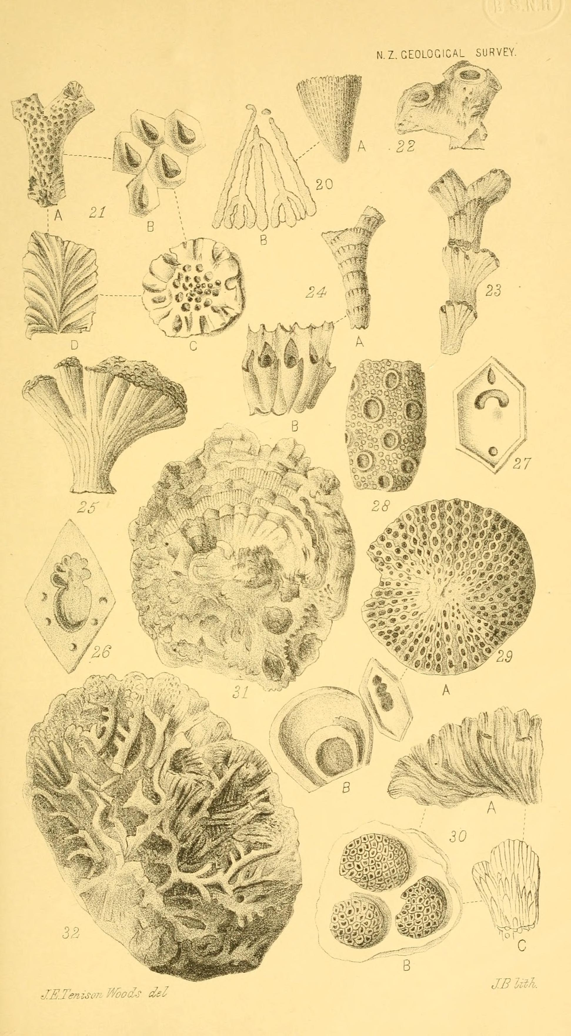 Corals and bryozoa of the neozoic period in New Zealand / by J.E. Tenison-Woods.